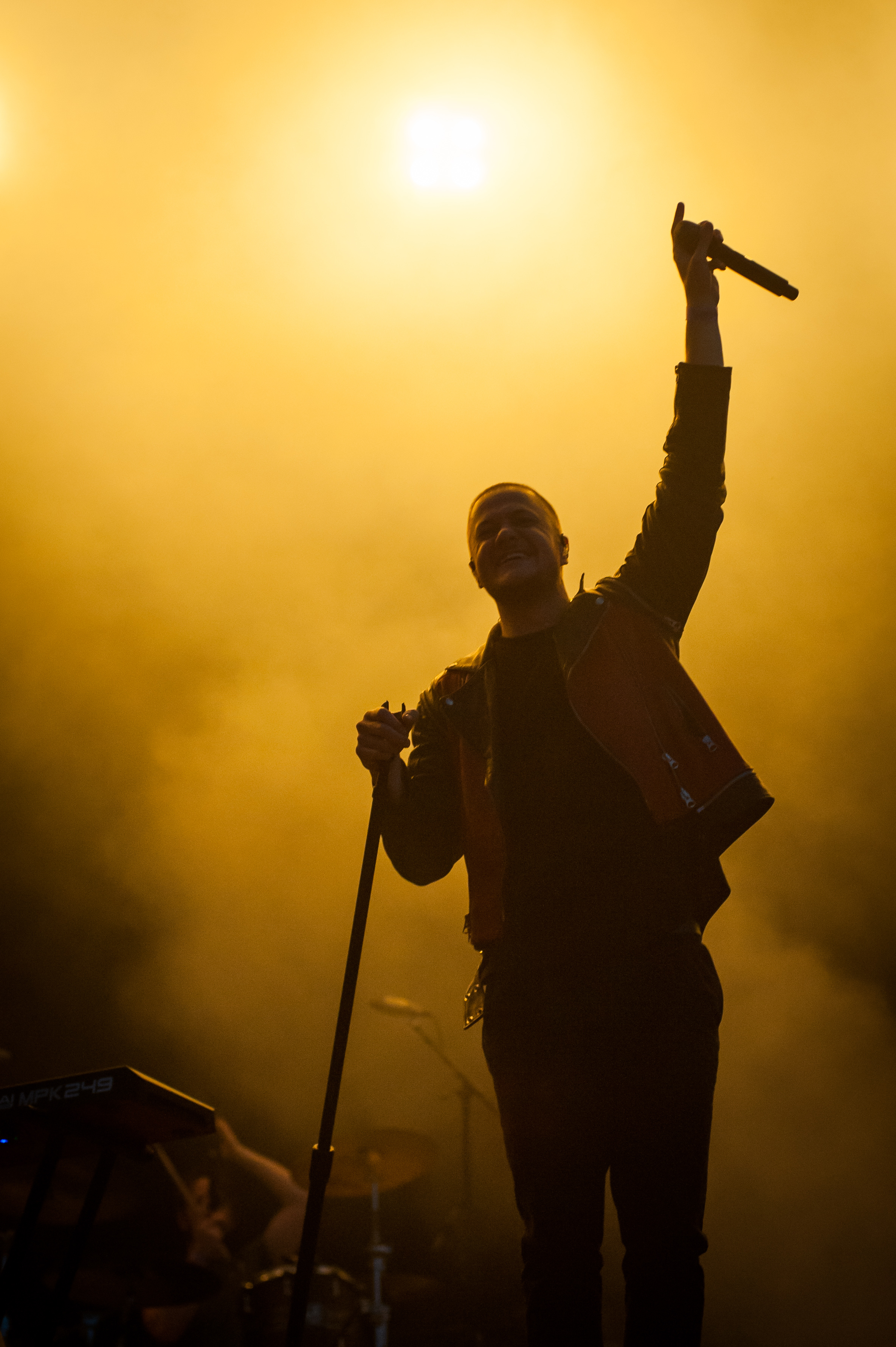 American rock band Imagine Dragons performing at the Ilosaarirock festival in Joensuu, Finland.